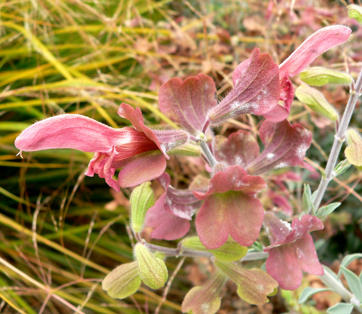 Photo of Salvia lanceolata at the University of California Botanical Garden